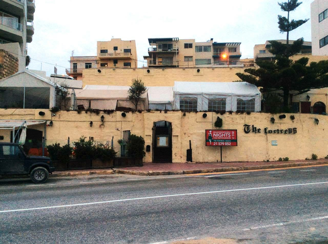 Arias Battery - The Fortress